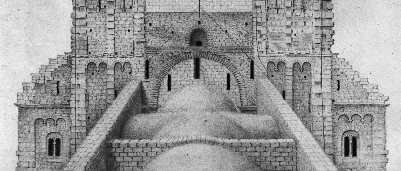 Detail of a 19th-century drawing (probably by Jan Brabant) of the westwork and the vaults above the nave of the Basilica of Saint Servatius in Maastricht, the Netherlands.